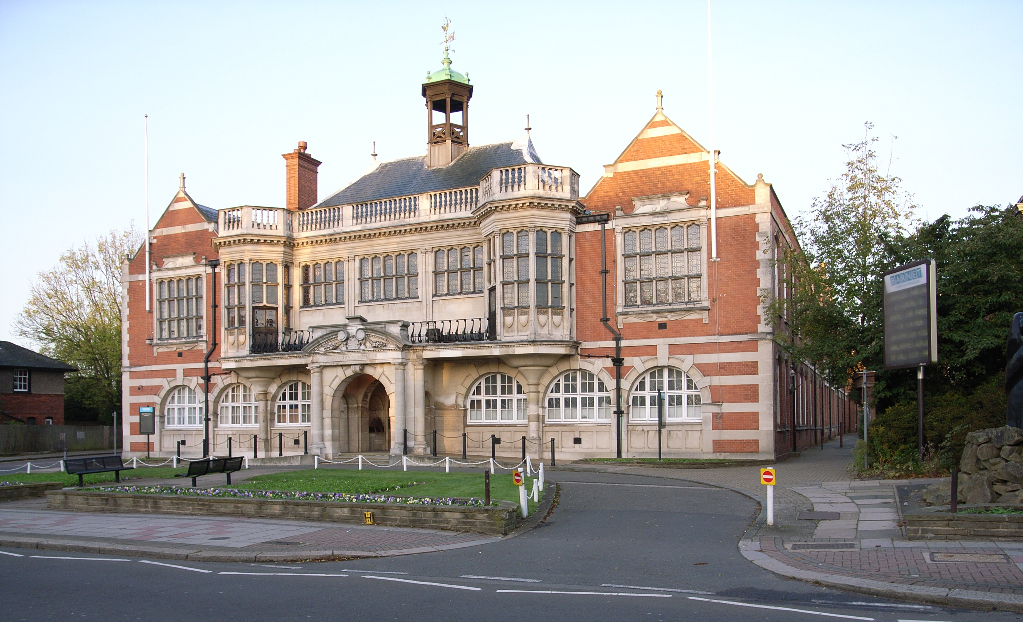 Hendon Town Hall (1900) by T.H. Watson